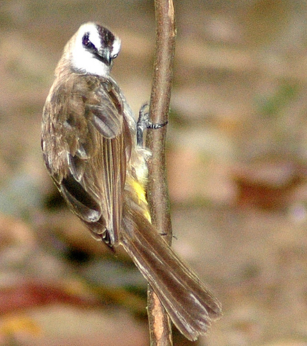 Yellow-vented Bulbul